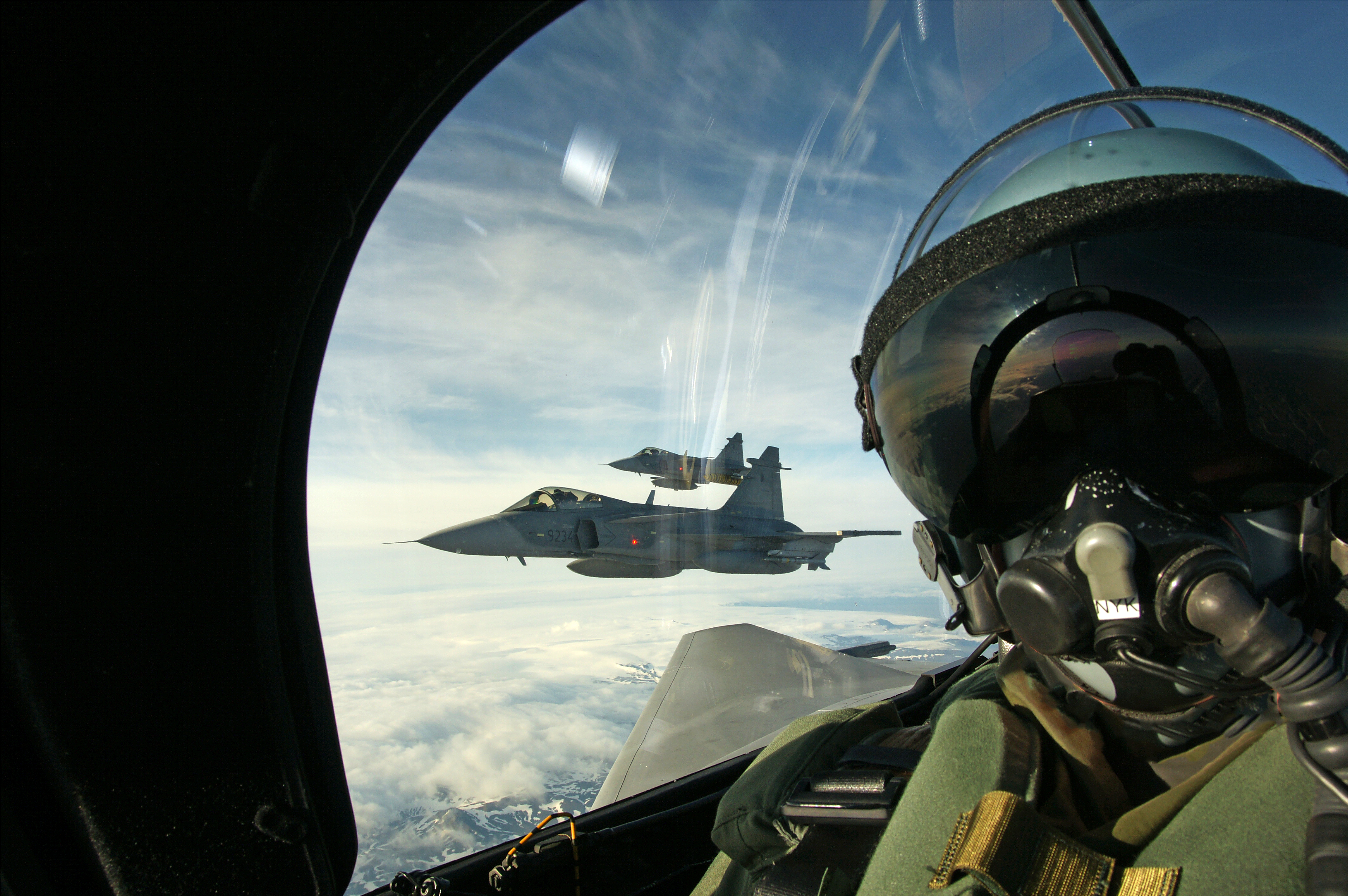 Selfie in a Czech Saab Gripen as it patrols Icelandic airspace